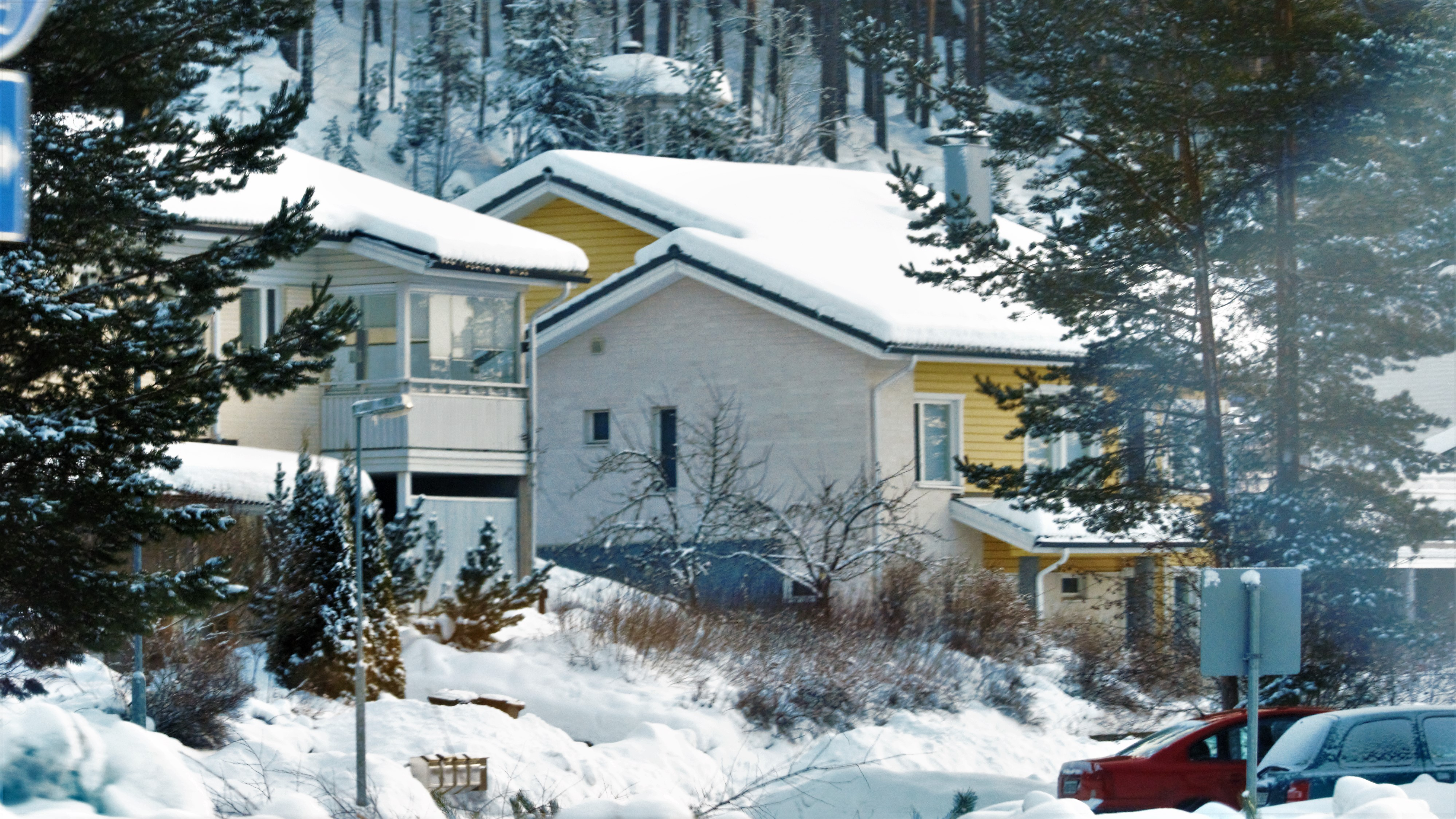 Rasinrinne, Kangasvuori, Jyväskylä, Finland.